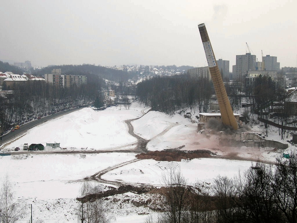 Destruction of chimney in Liberec, 2005-03-05